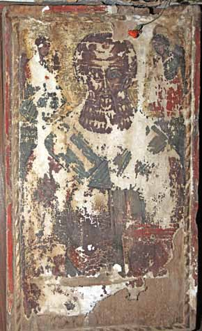 Saint Athanasius Icon from Saint Athanasius Church in Teovo, XVII Century